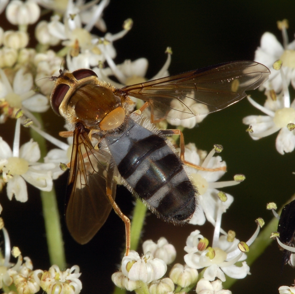 Ischyrosyrphus glaucius, Valle Maggia, Ticina, Switzerland